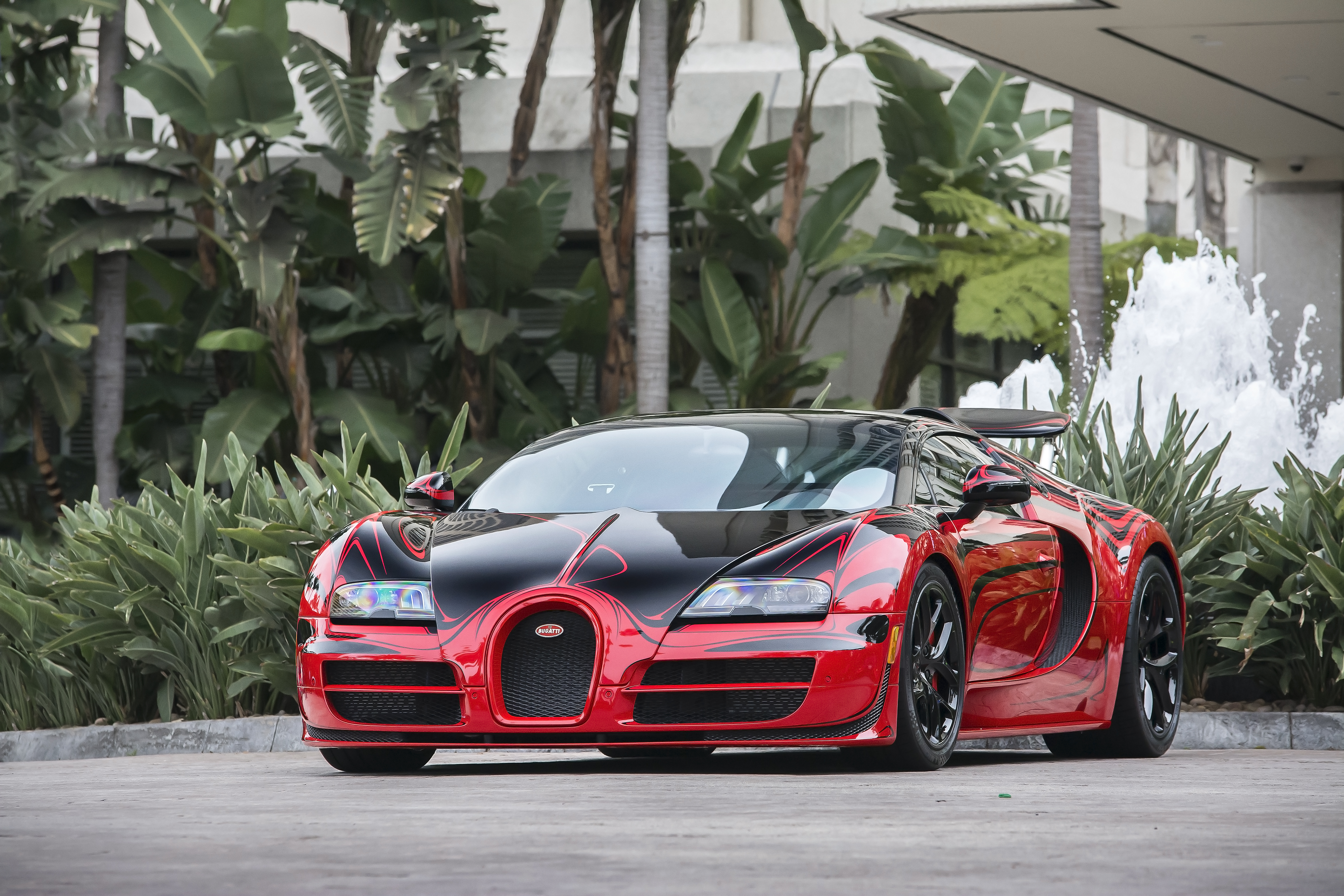 Bugatti Veyron Hellbug (L'Or Rouge) at Targa Trophy